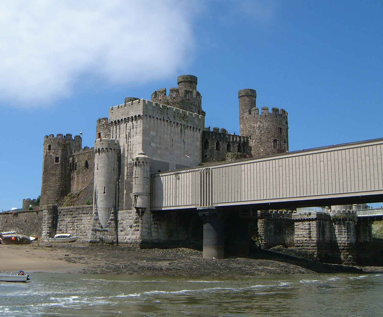 The Conwy Railway Bridge. Personal photograph taken by Mick Knapton on 12th June 2004